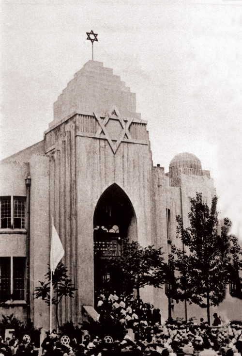 1948, before the Tientsin synagogé, The State of Israel was declared, on the assembly of the Jews in Tientsin. 中文（中国大陆）: 1948年，以色列建国，犹太人聚集在天津犹太会堂前